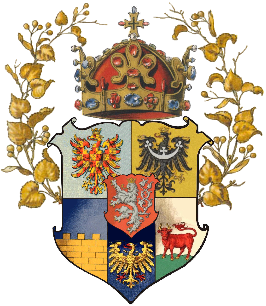 coat of arms of Czechlands / Lands of Czech Crown